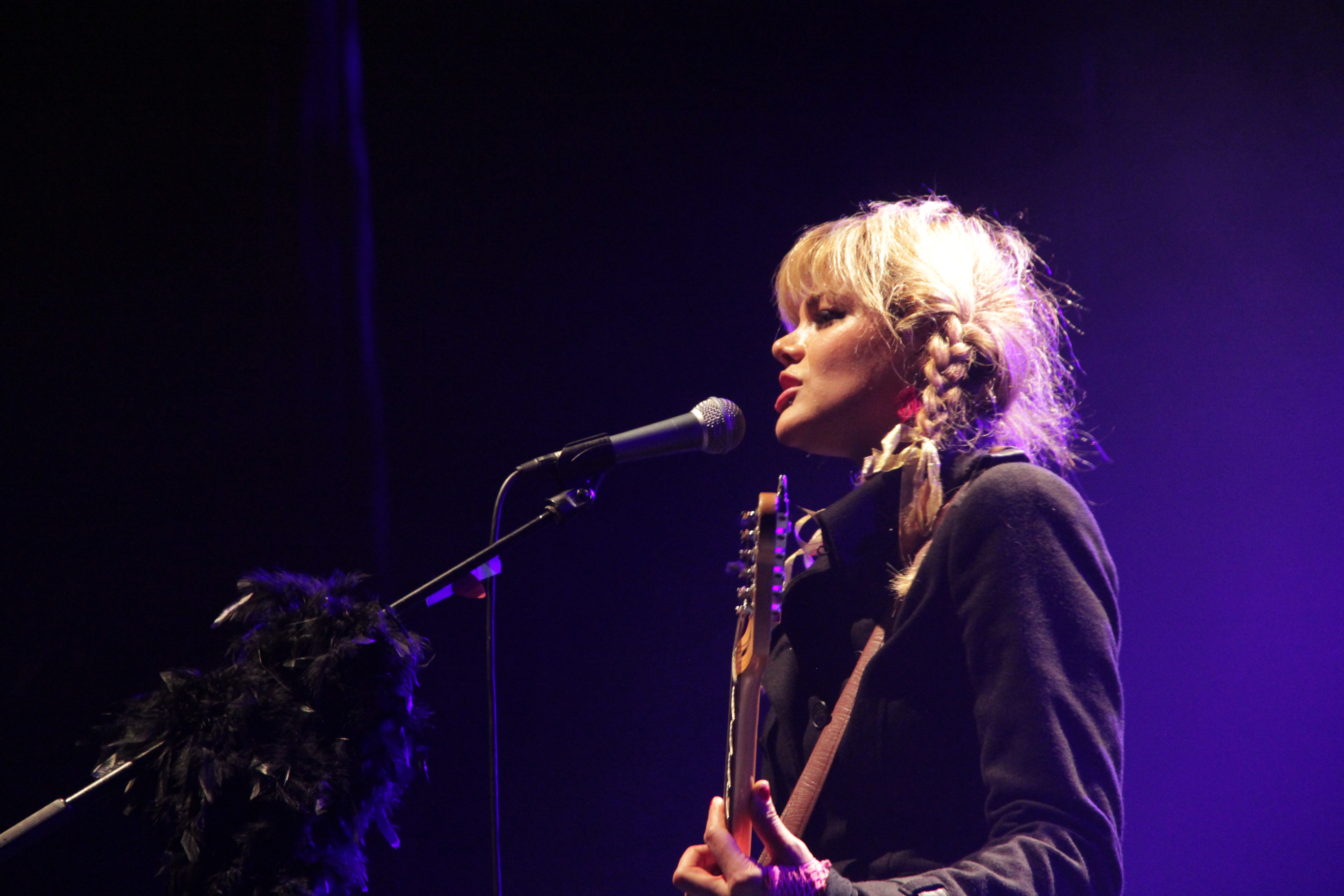 Nadéah performing in Massy, Île-de-France, 30 October 2011